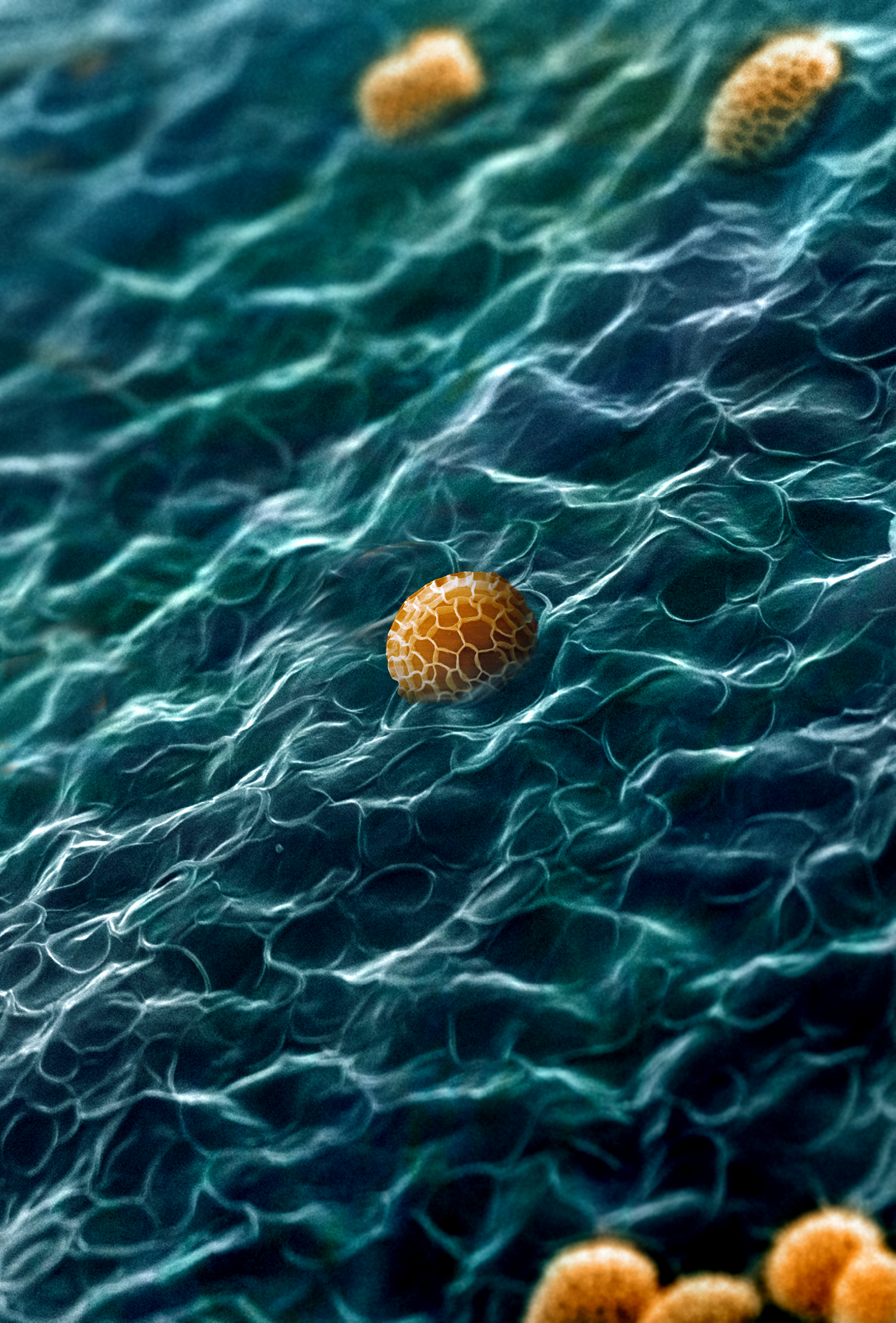 Internal surface of the peridium of the rare myxomycete Tubifera dudkae is covered with folds, resembling sea waves. Among them oval shaped reticulate spores occur. Micrograph image made with a scanning electronic microscope and coloured with computer graphic tools. Magnification 2000x.